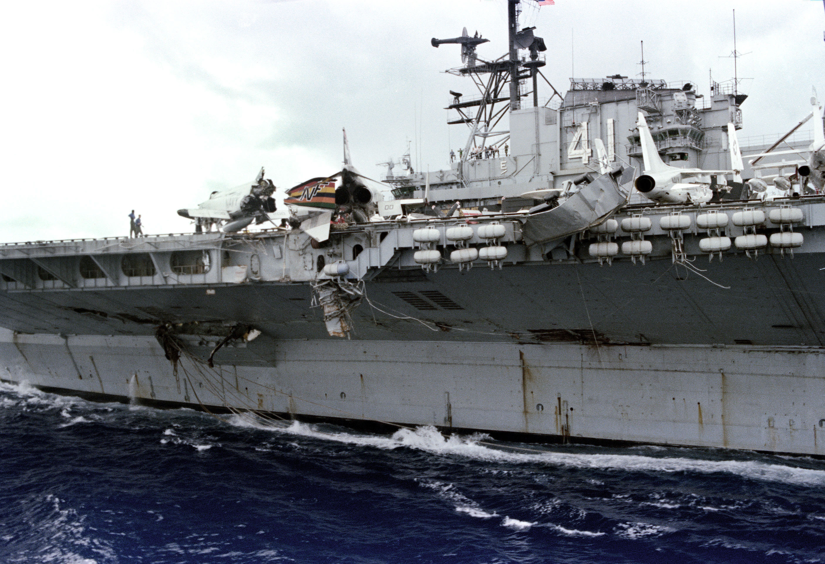 A port amidships view of the aircraft carrier USS MIDWAY (CV 41) showing the damage resulting from a collision with the Panamanian freighter CACTUS.